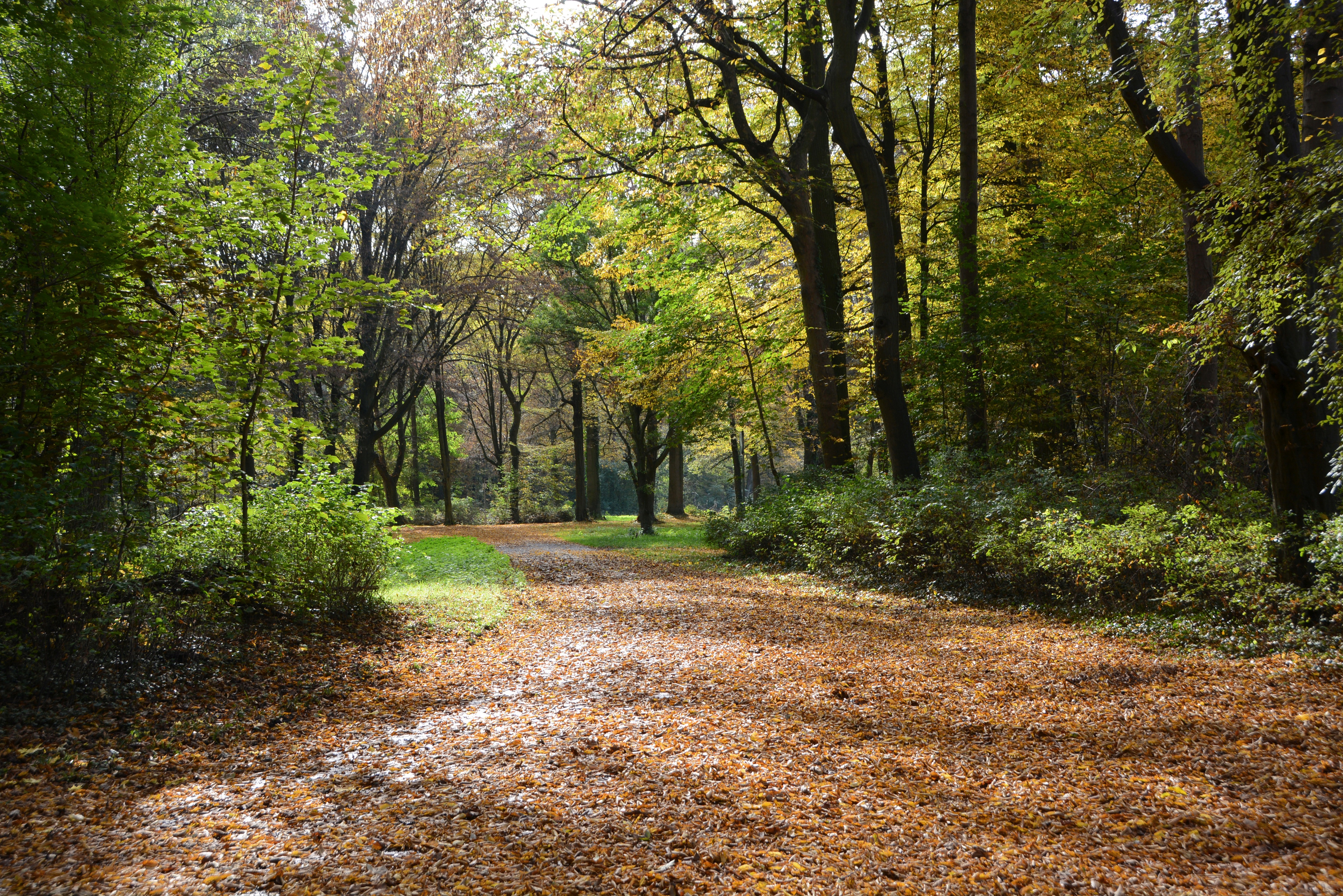 Forest park, Mannheim, Germany, walking and bicycle path at fall time